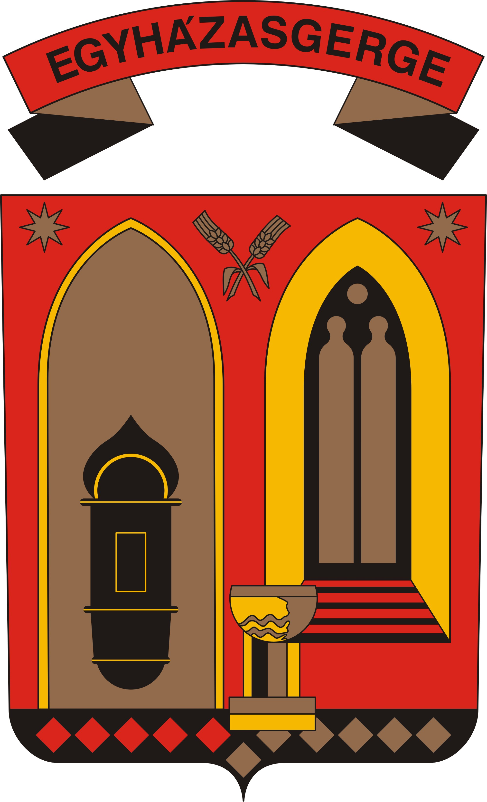 Coat of arms of Egyházasgerge, Hungary